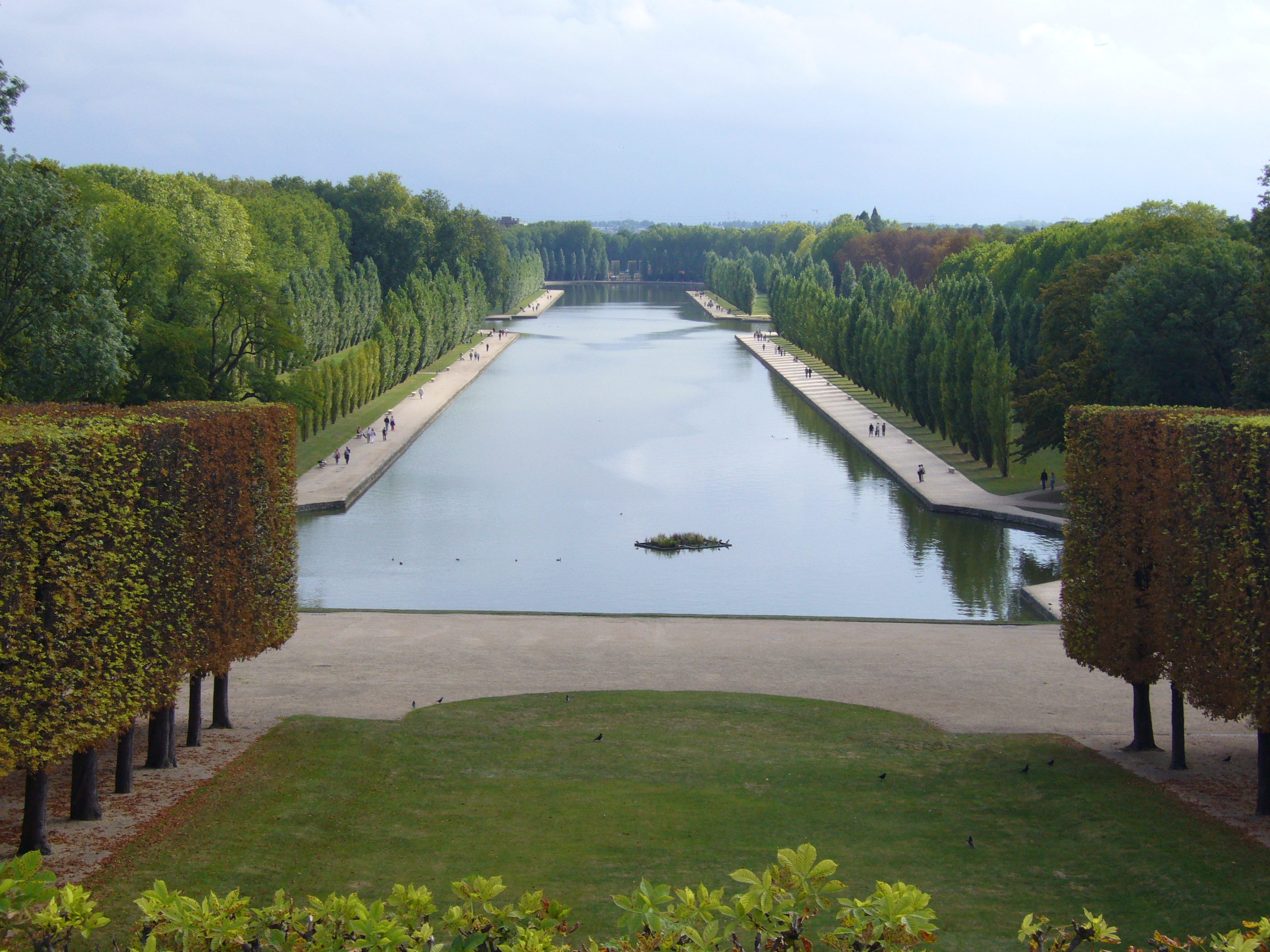 Grand Canal, Sceaux, Hauts de Seine, France